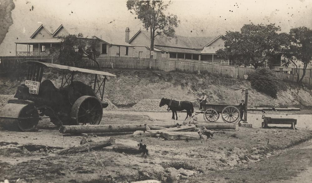 Old Bowen Bridge Road State School in Brisbane, ca. 1910 Taken from the site of the Windsor Council Chambers. The school was opened on 17th July 1865, (official opening on 24th July 1865), with 16 pupils on the first day. Charles Johnson was the first headmaster and stayed until 30th April 1866. Several other headmasters followed until Mr. J. J. Caine (later a school inspector) was appointed in 1868. Mr. Caine held the position for 5 years. The new school, known as the Windsor State School, was opened on 5 August 1916. (Description supplied with photograph.).